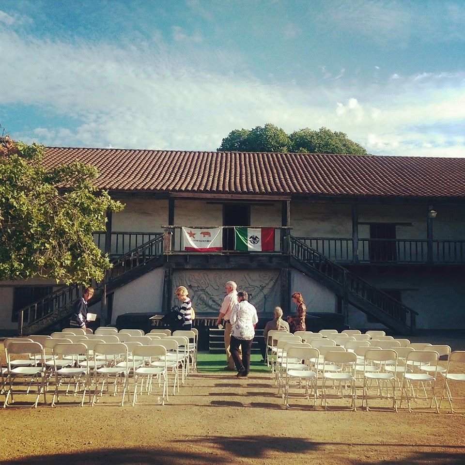 The Sonoma Barracks set up to have a play take place on site.